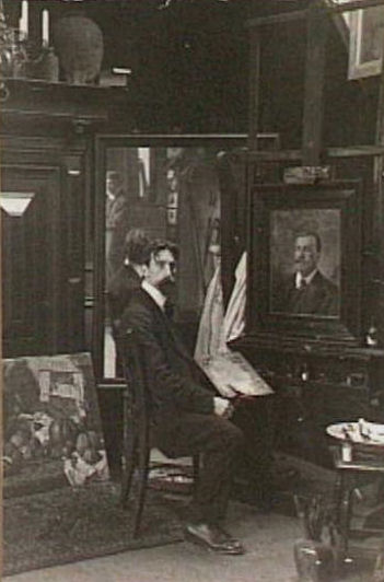 Portrait of the Dutch painter Constant Jozeph Alban (1873-1944)